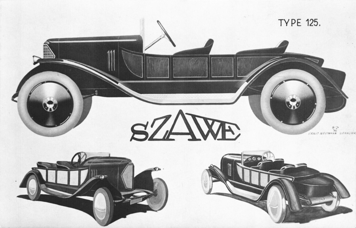 Advertisement for 1920 Szawe Type 125 – Luxury cars built only from 1920 to 1922 by Szabo & Wechselmann of Berlin.